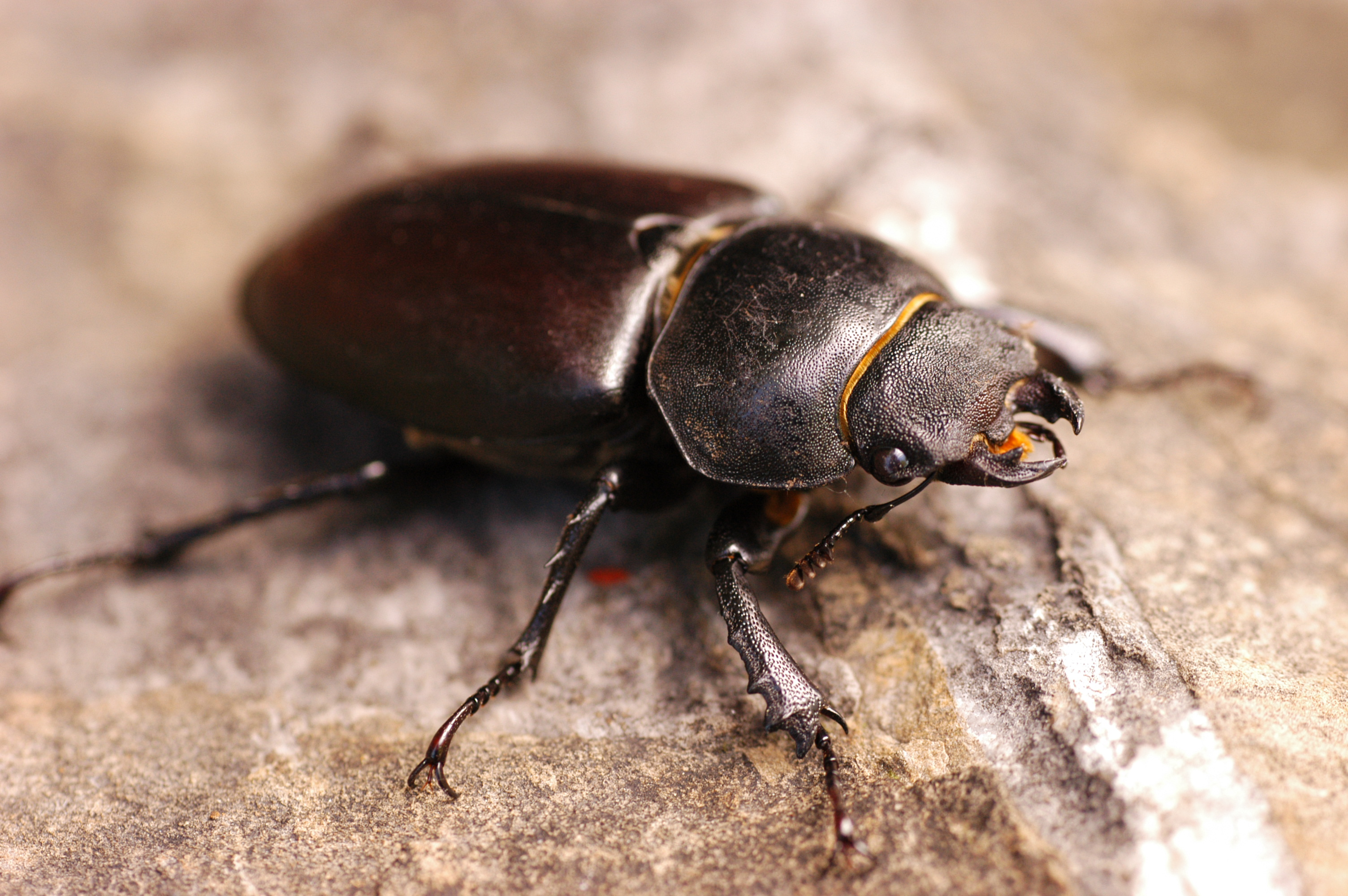 Lucanus cervus